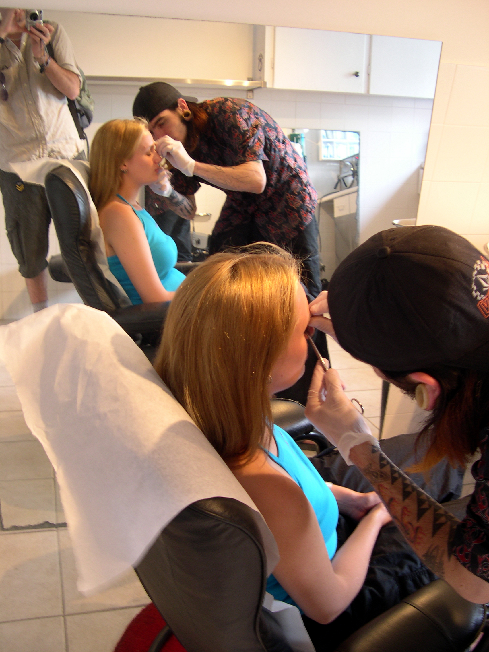 A woman gets her nose pierced in a studio